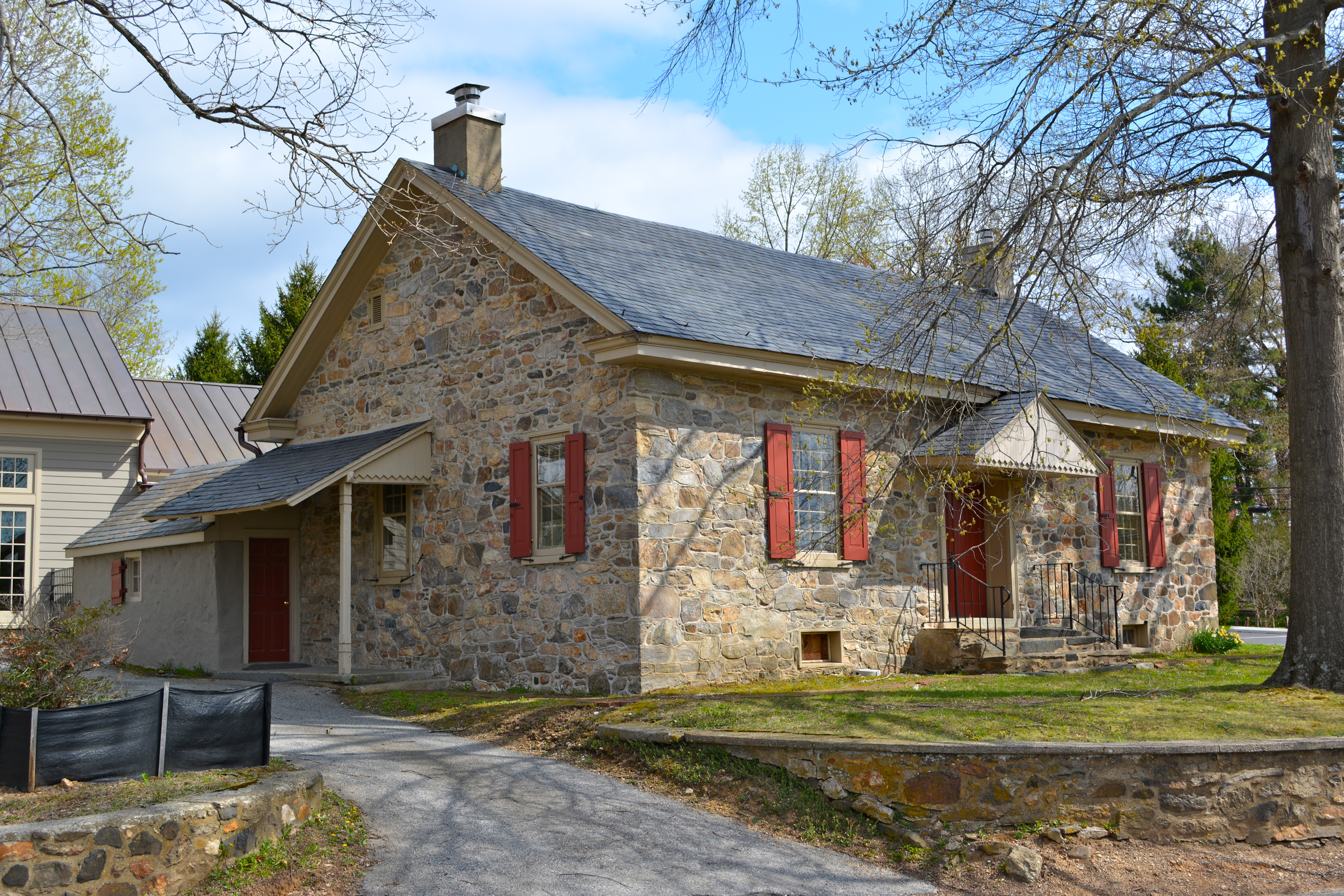 Hockessin Friends Meetinghouse listed on the NRHP on March 20, 1973. At Roads 254 and 275 at Meetinghouse Rd., east of Hockessin, DE